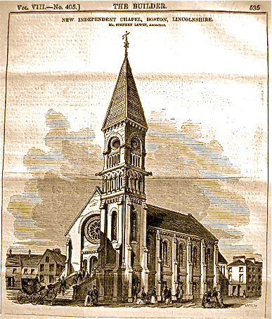 Congregational Chapel, Red Lion Street, Boston, From a drawing by Stephen Lewin, 1850